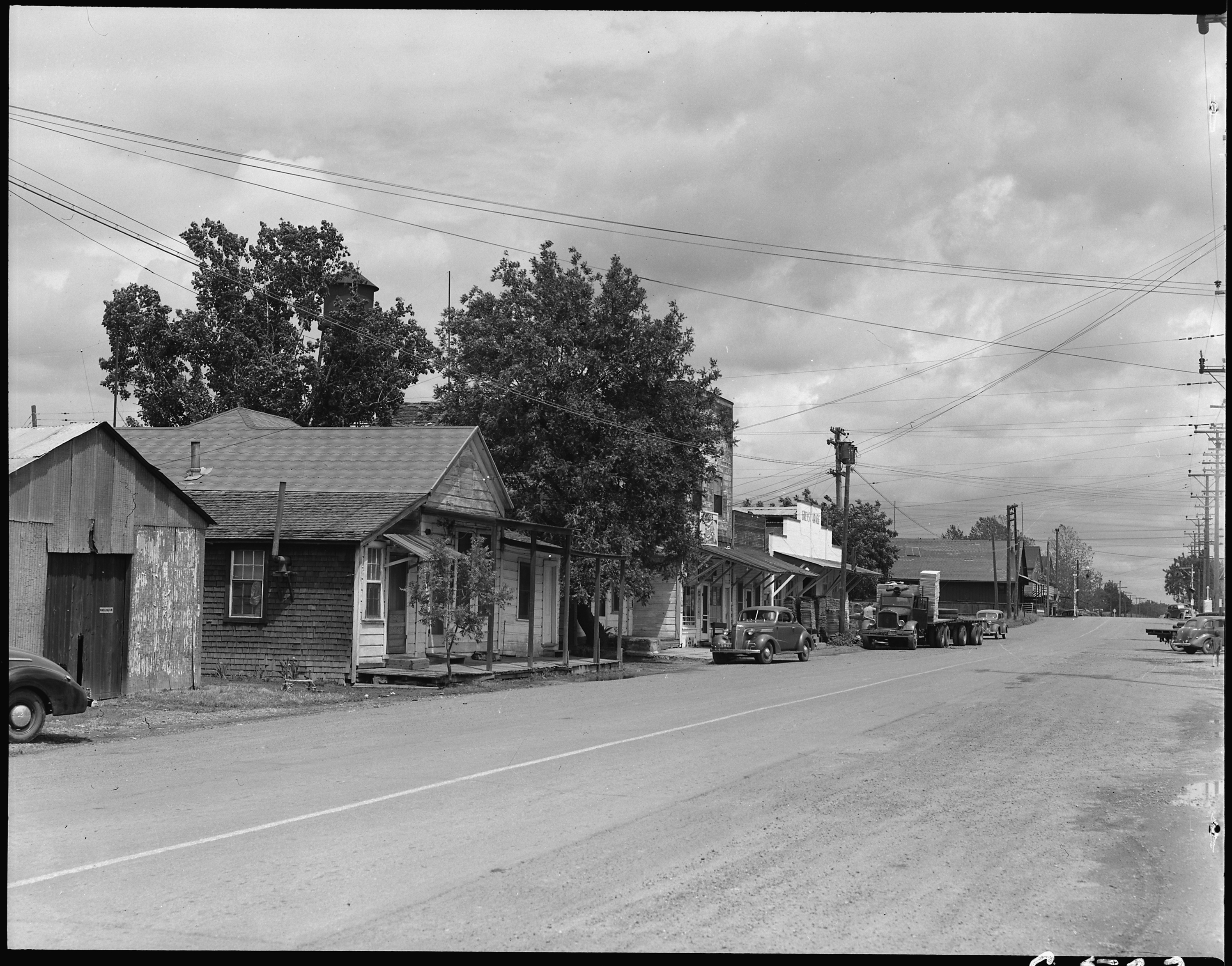 Scope and content: The full caption for this photograph reads: Florin, California. Main Street of this small town in the center of the strawberry and grape- producing area. Most of the population of this section is of residents of Japanese ancestry who will be evacuated in two days to assembly centers where they will await transfer to War Relocation Authority centers to spend the duration.